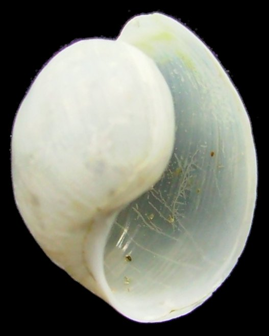 Photo of apertural view of the shell of Haminoea zelandiae from Auckland, New Zealand.